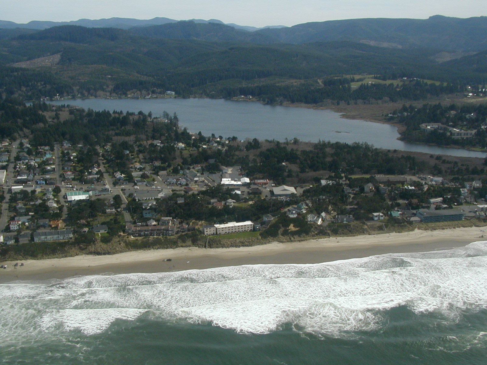 Aerial photograph of Devils Lake, Lincoln County, Oregon from above the Pacific Ocean. Paul Robertson (photographer.